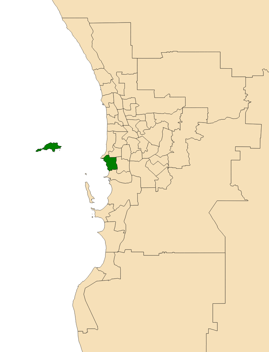 Location of the electoral district of Fremantle in the Perth metropolitan area, Western Australia as of the 2017 WA state election.